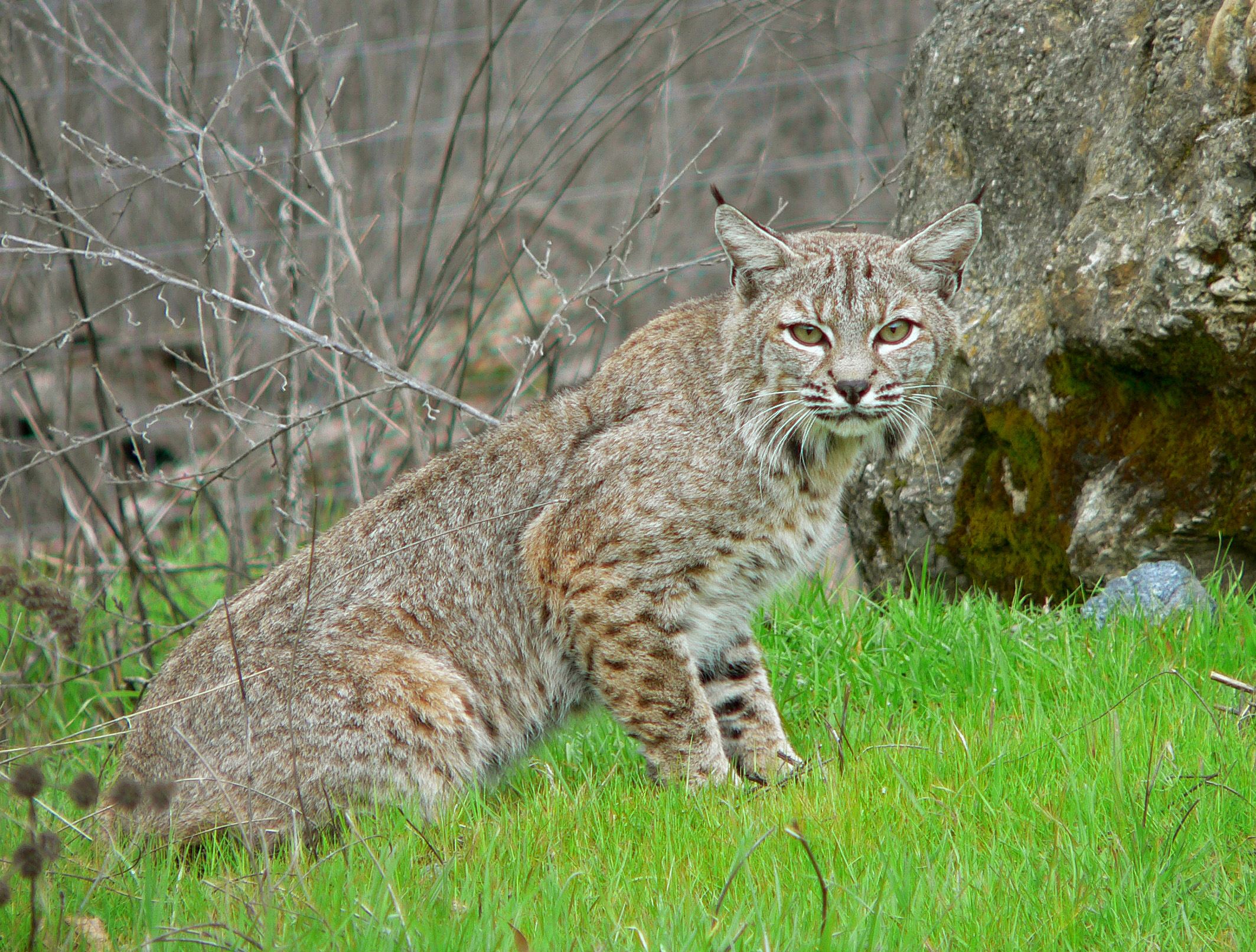 Bobcat (Lynx rufus), taken at Sunol Park near Livermore CA, USA